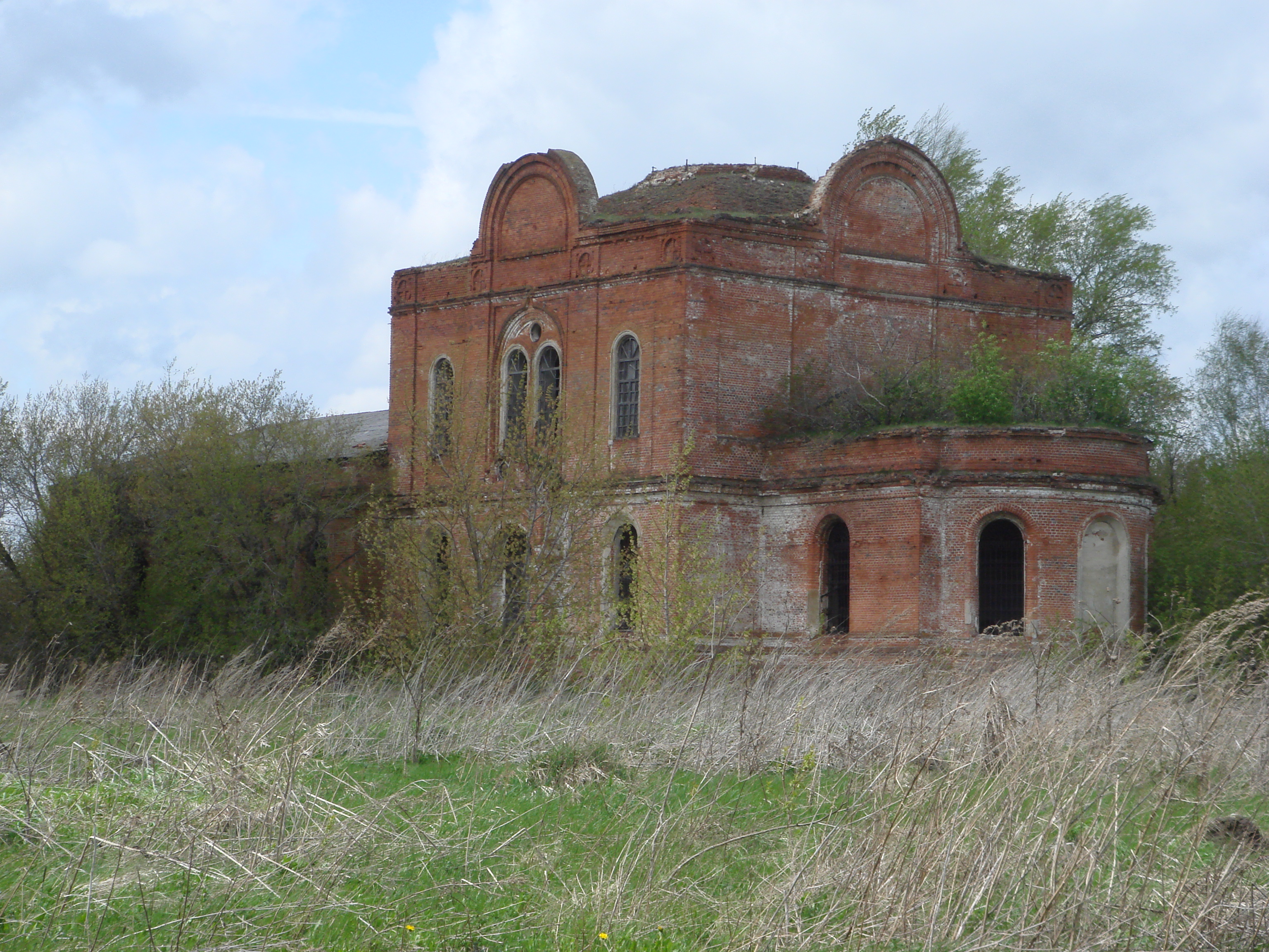 Фотография церкви Воскресения Христова в селе Зорино